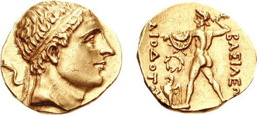 Coin of the Baktrian King Diodotos II